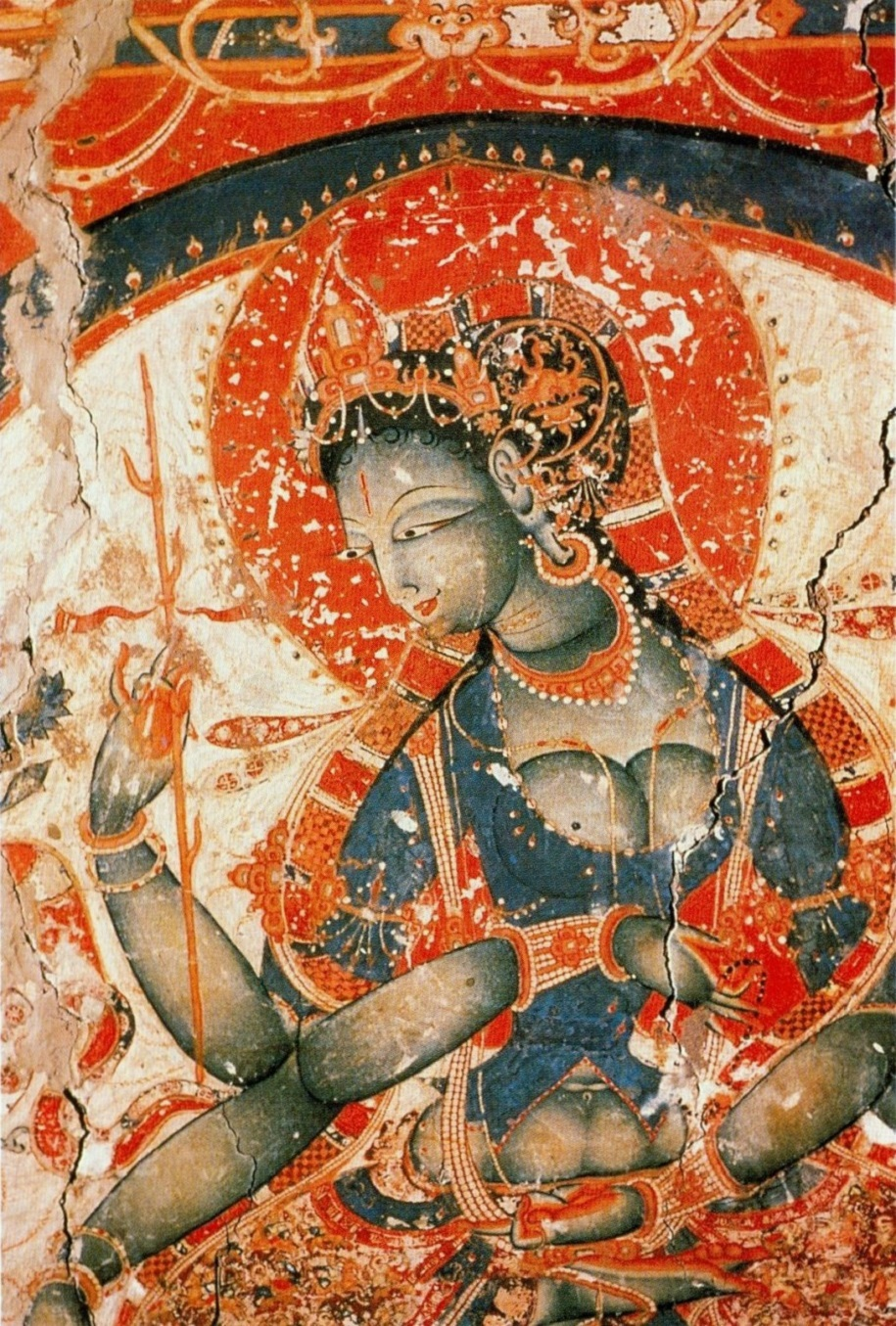 Green Tara as Prajnyaparamita. Sumtsek hall at Alci monastery, Ladakh, ca. 3d quarter of the 11th century